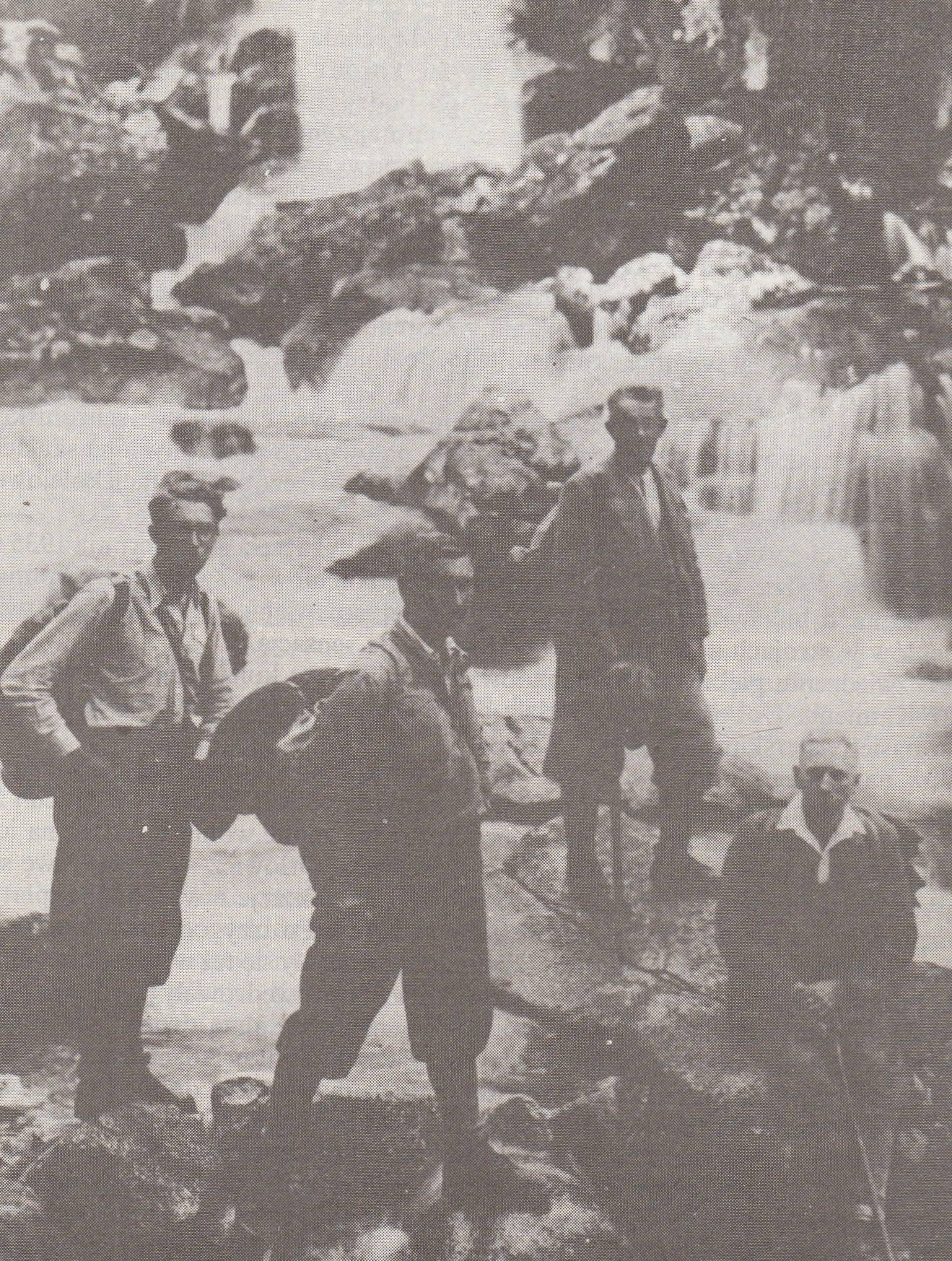 Waterfalls of Studený potok in Tatra Montains. From left Tadeusz Dohnalik, Mieczysław Miller, Mieczysław Orłowicz, Eugeniusz Parczewski